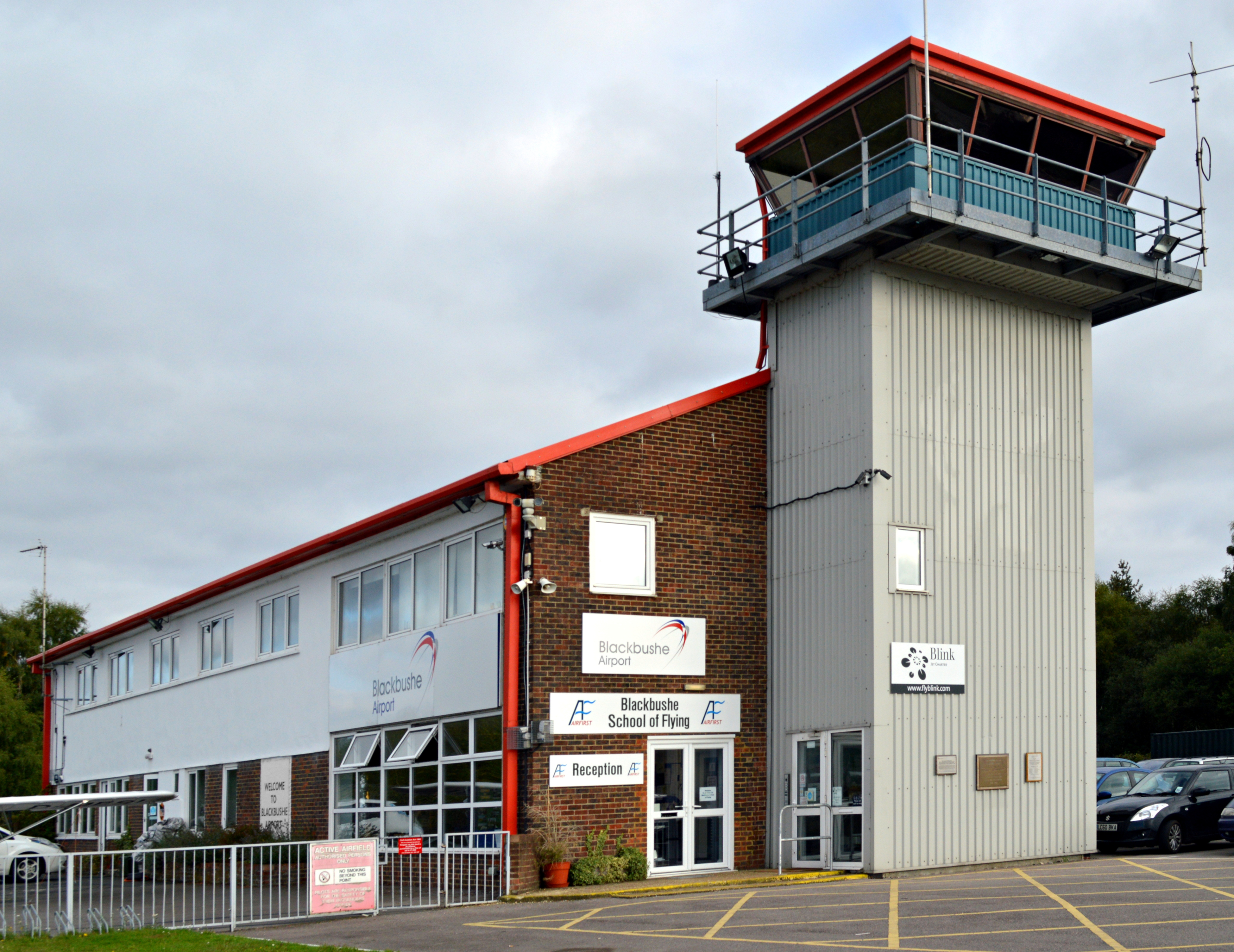 Control tower at Blackbushe Airport